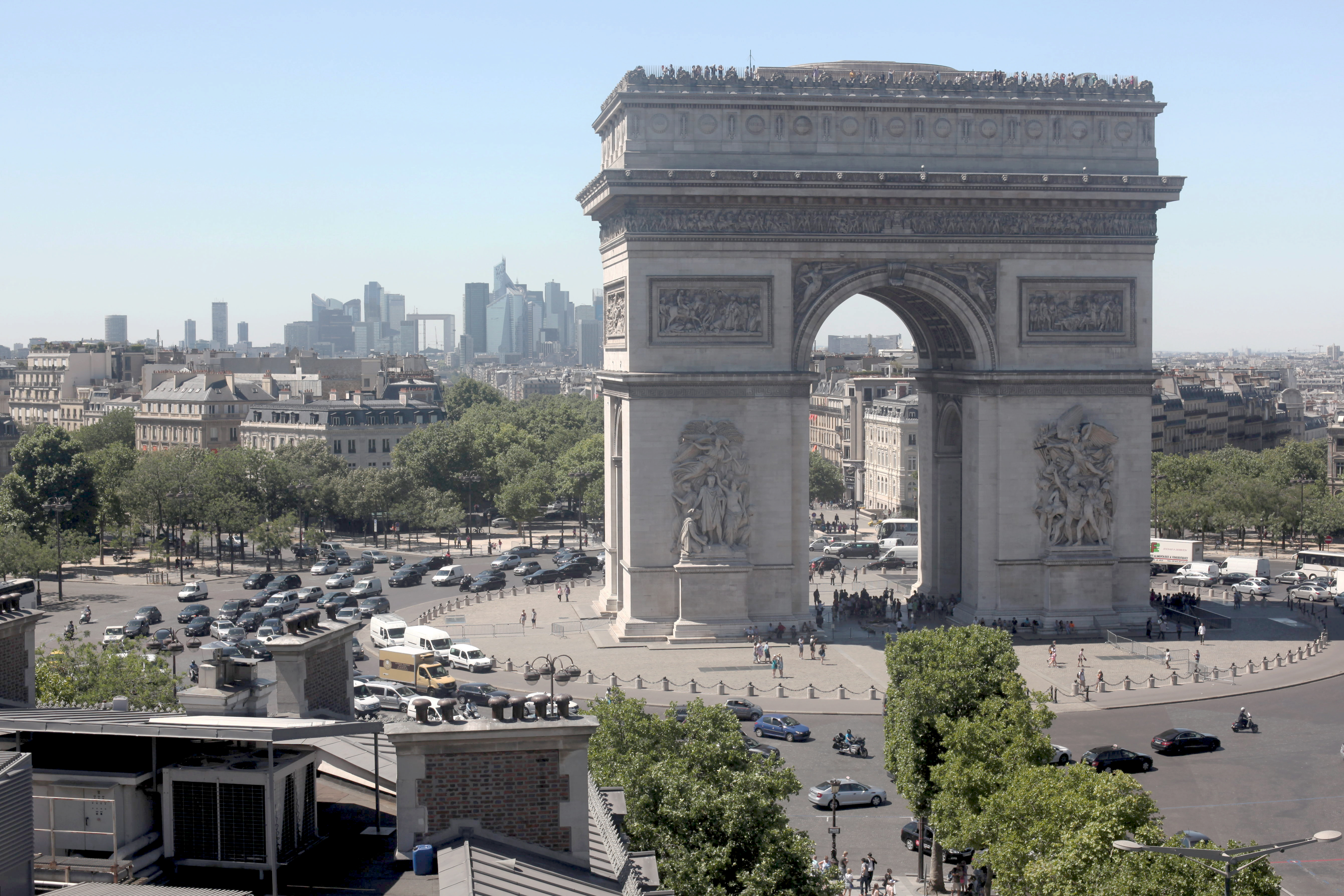 The Arc de Triomphe, seen from a terrace on the Champs-Élysées.